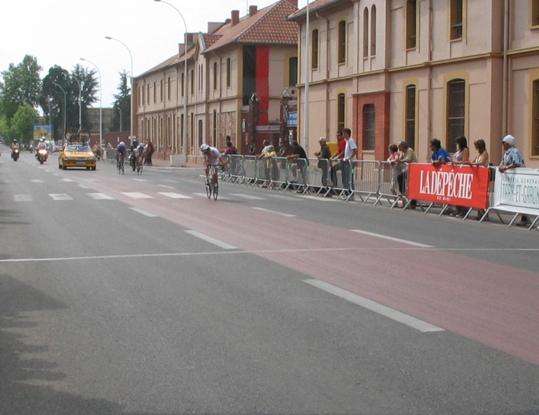 Finish of Tour du Tarn et Garonne 2005, Pétilleau won.